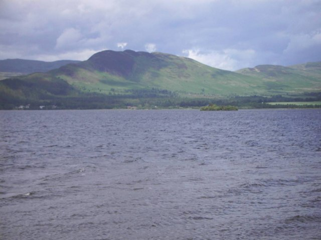 South Loch Lomond. Almost an entirely watery square with the exception of the tiny wooded Aber Isle (see Aber_Inch ) in the shallow southern end of Loch Lomond, with Conic Hill in the background.